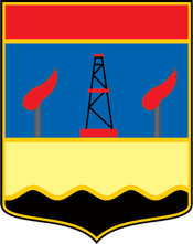 Otradny (Samara oblast), coat of arms